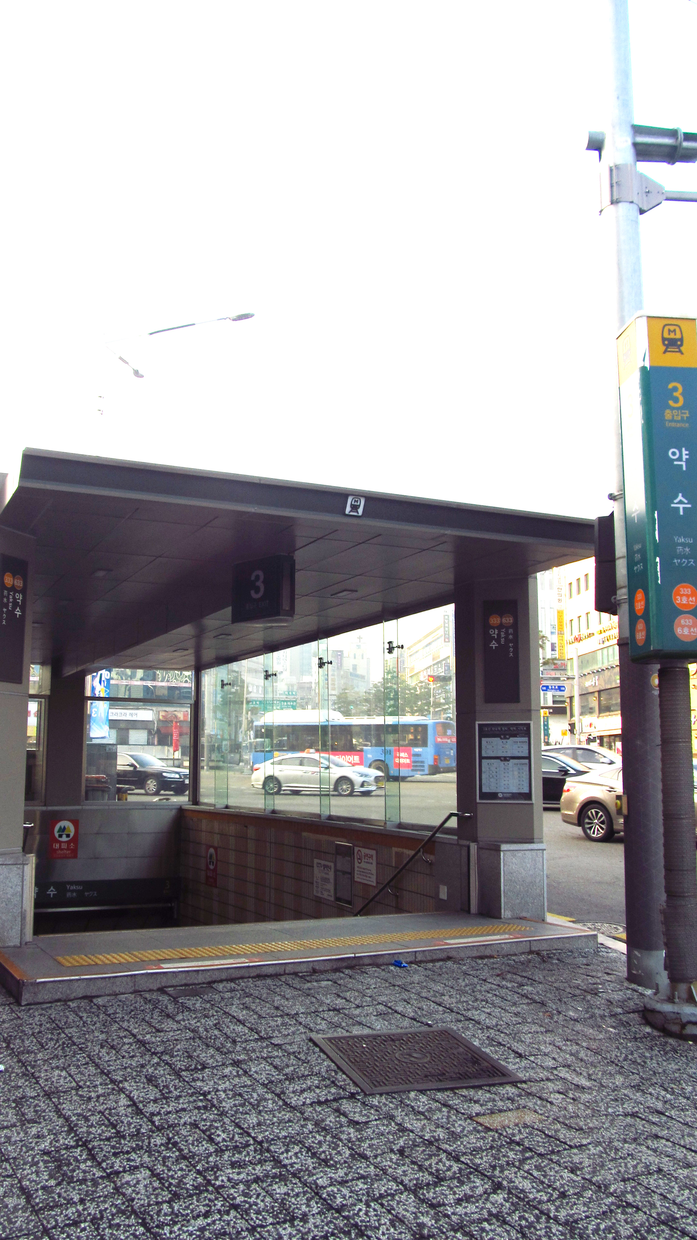 The no.3 entrance to Yaksu Station on Seoul Subway Line 3 and Line 6 in Jung-gu, Seoul, Republic of Korea(South Korea)